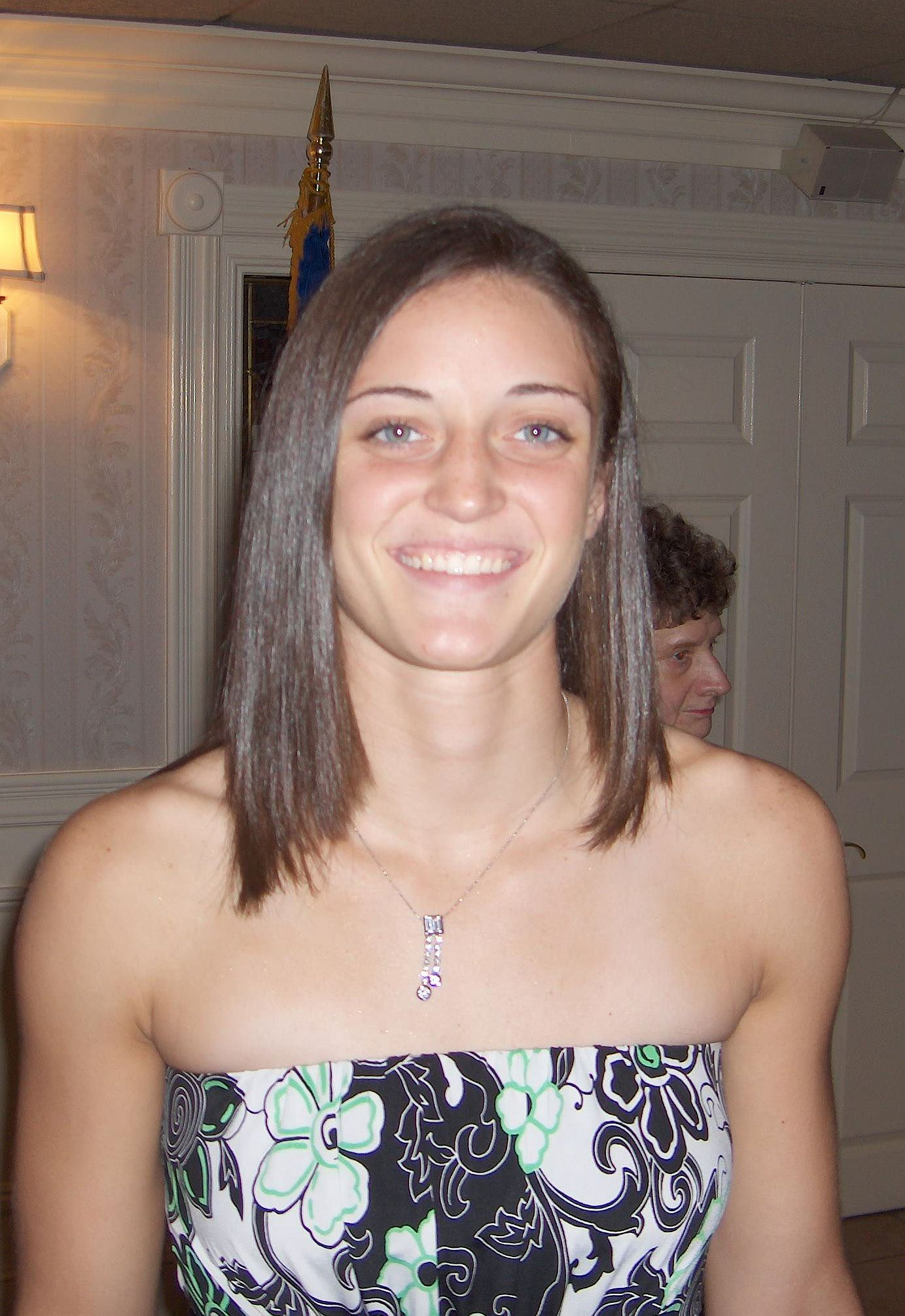 Kelly Faris, incoming freshman, at Championship Dinner